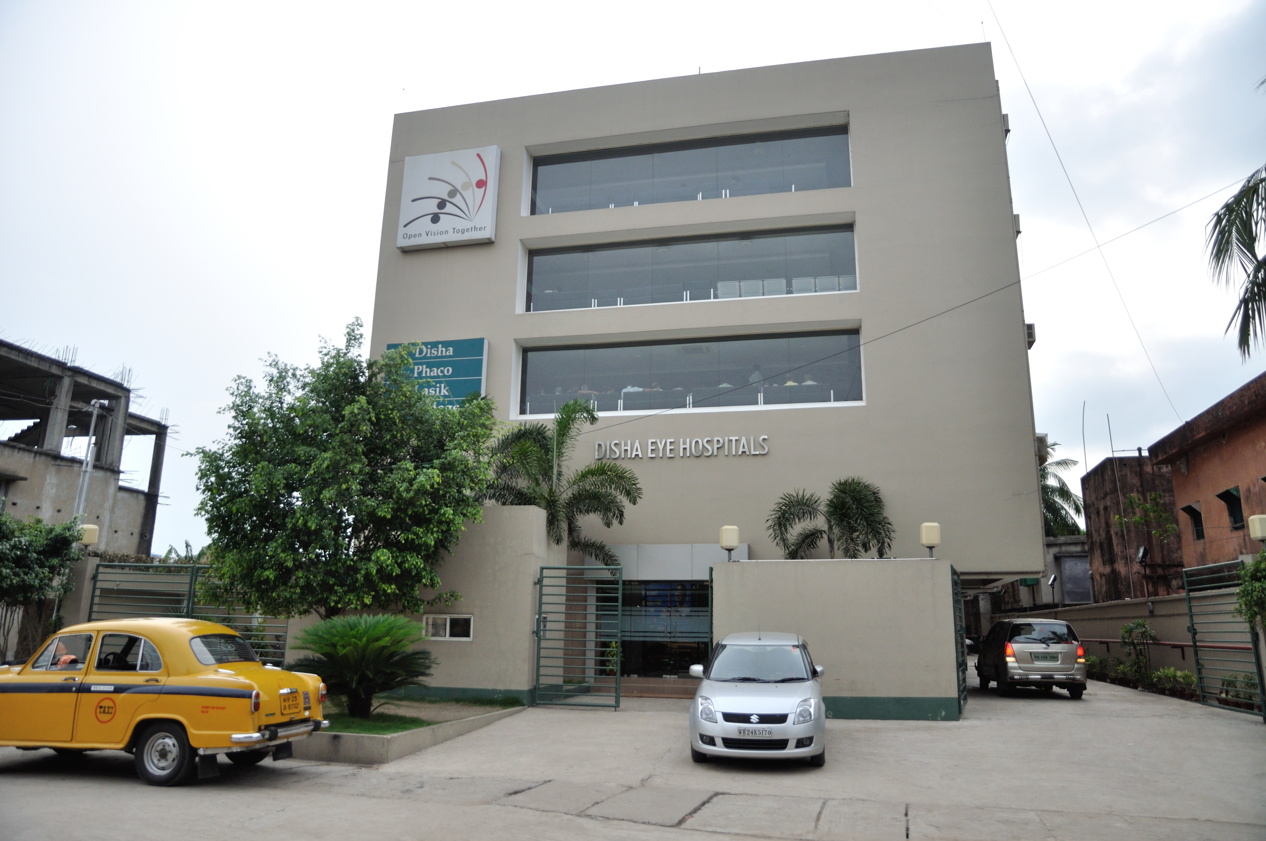 photographed in greater Kolkata.